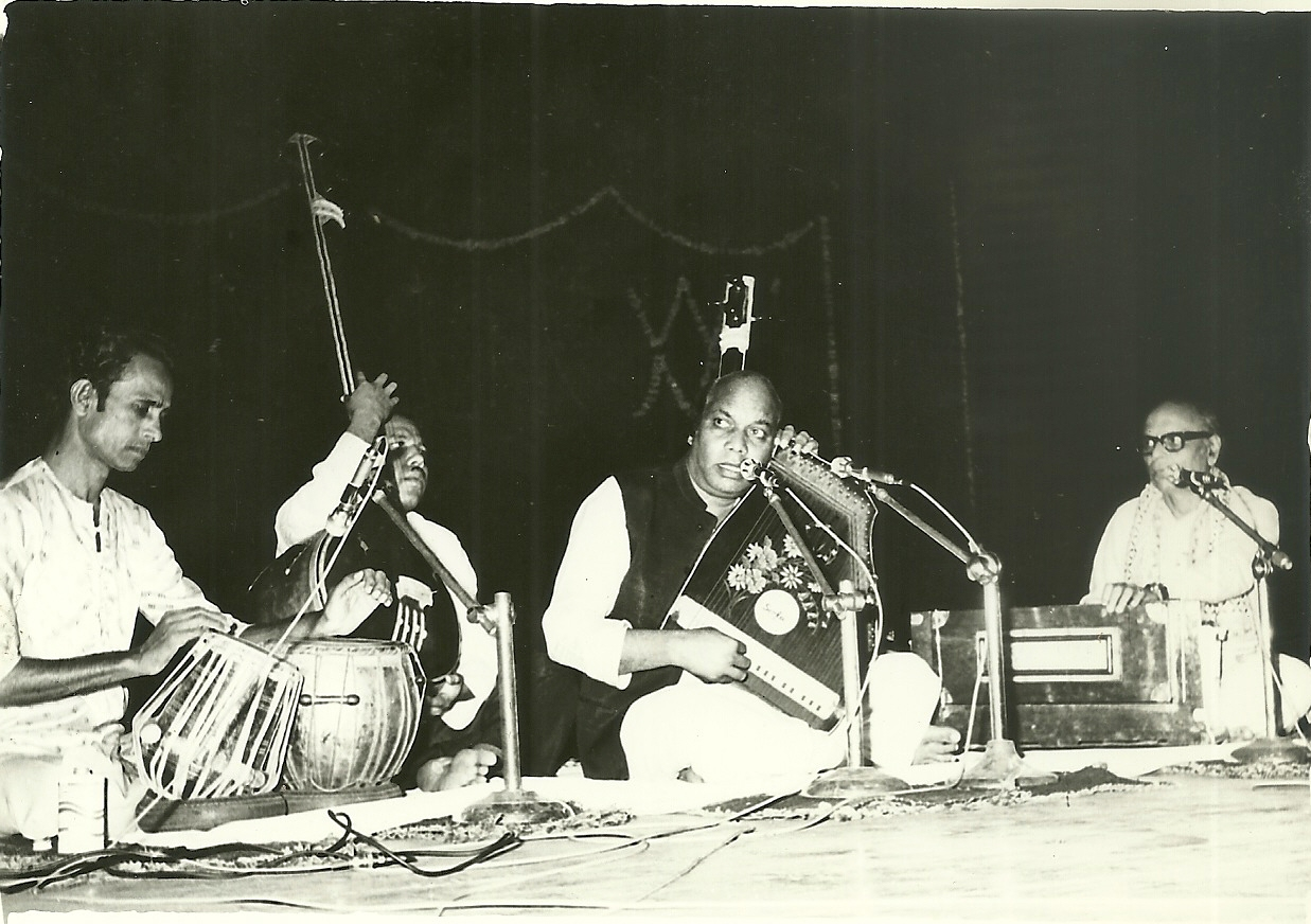 Pt. Mani Prasad, the leading exponent of Kirana Gharana of Indian Classical Music.